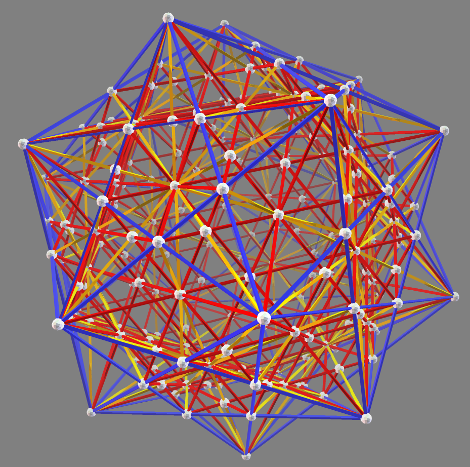 Created by Elizabeth Schlapp using ZomeCAD version 0.5.6.